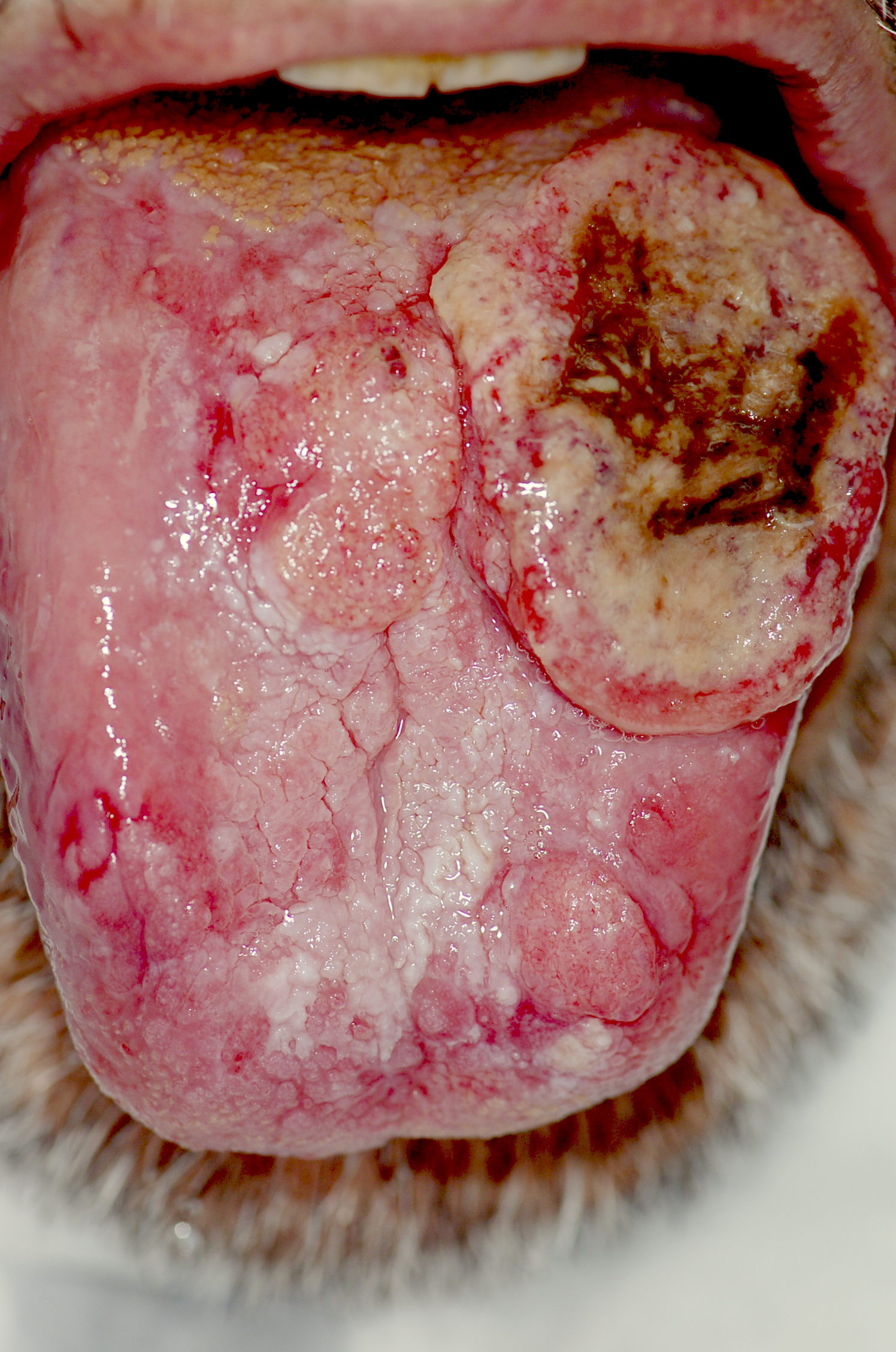 Figure 1. The Dorsum of the Patient's Tongue On biopsy, the three exophytic masses turned out to be oral carcinomas, while the surrounding hyperkeratotic area showed histologic features of oral lichen planus.